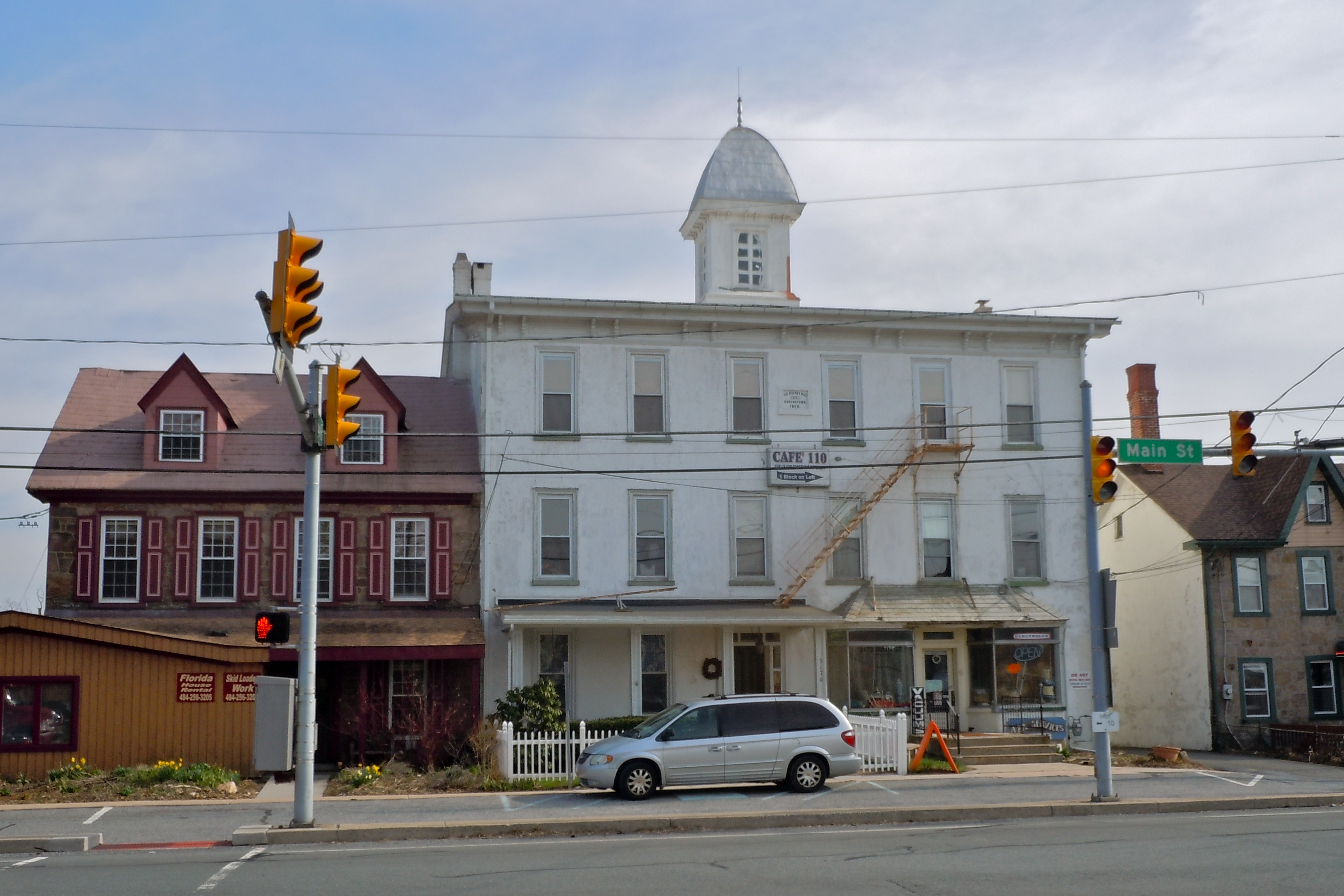 Oddfellows Building in Morgantown, Pennsylvania. Datestone on front of tower says "Odd Fellows Hall OOO Morgantown 1868" Part of Morgantown Historic District on the NRHP since November 7, 1995. The Odd Fellows Hall is roughly in the middle of the HD which covers roughly the area surrounding Main Street between Walnut and Washington Streets in Morgantown, Caernarvon Township, Berks County, Pennsylvania.